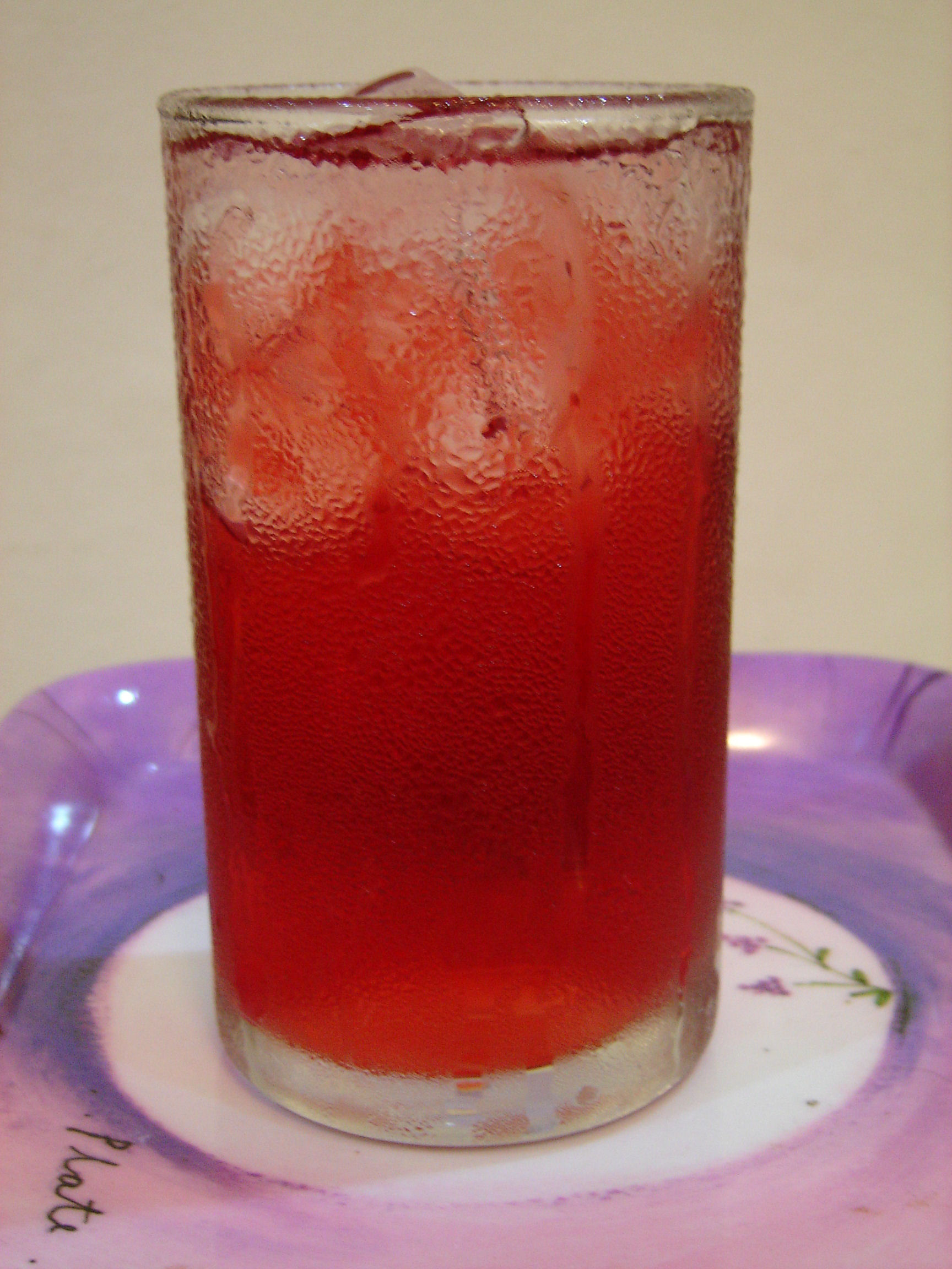 A refreshing roselle drink (Author: Dr. Mohamad bin Osman, Universiti Kebangsaan Malaysia (UKM), )